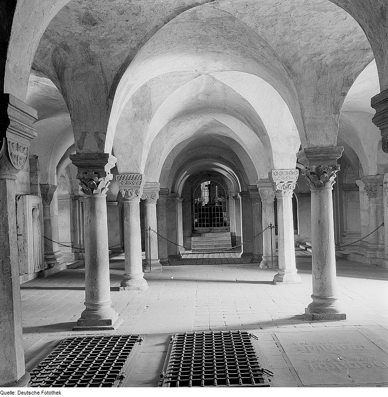 Original image description from the Deutsche Fotothek Quedlinburg. Stiftskirche St. Servatius, Krypta